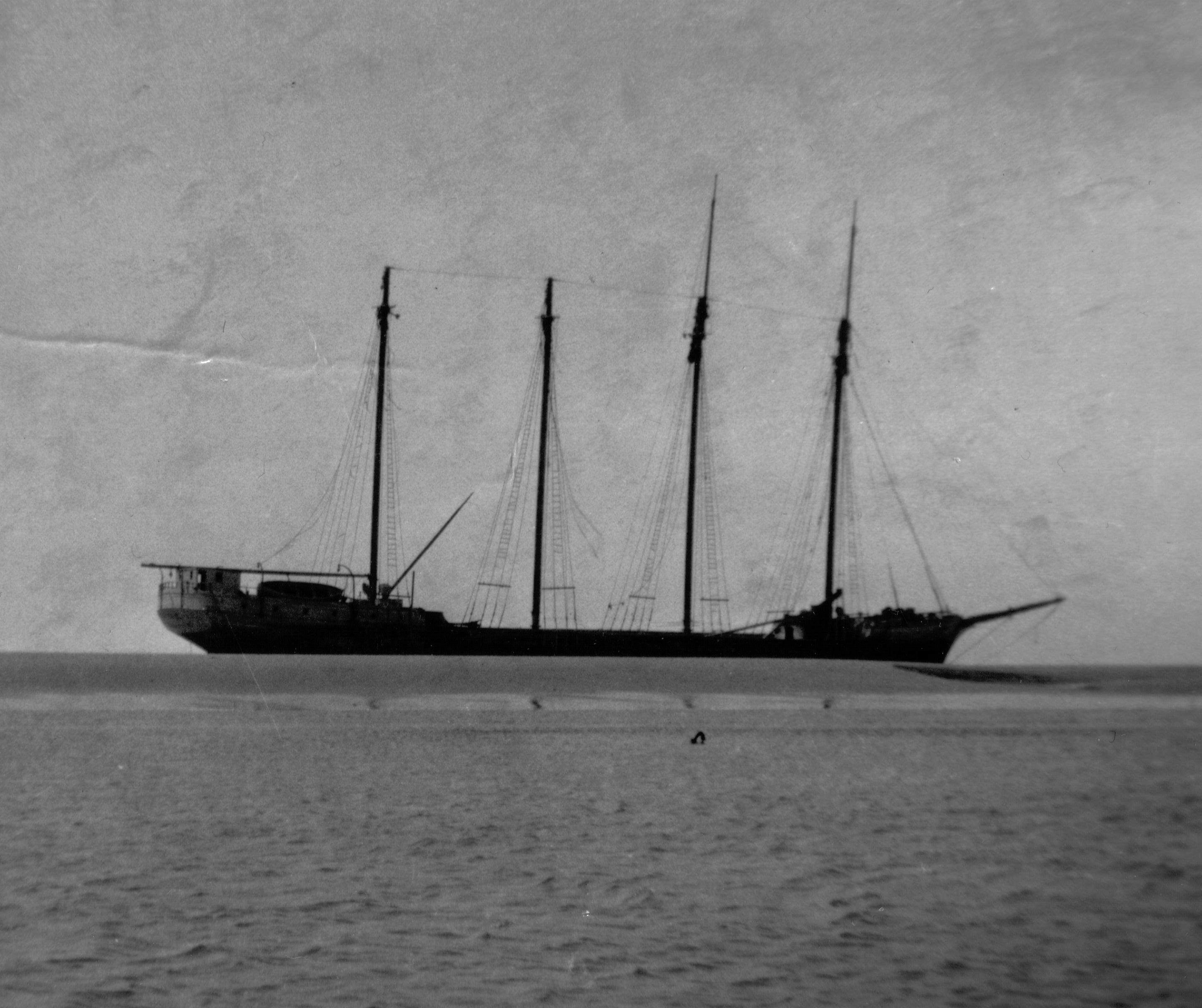 The SS Paul on Cefn Sidan sands, Gwendraeth estuary, Carmarthen Bay, De Cymru (South Wales).